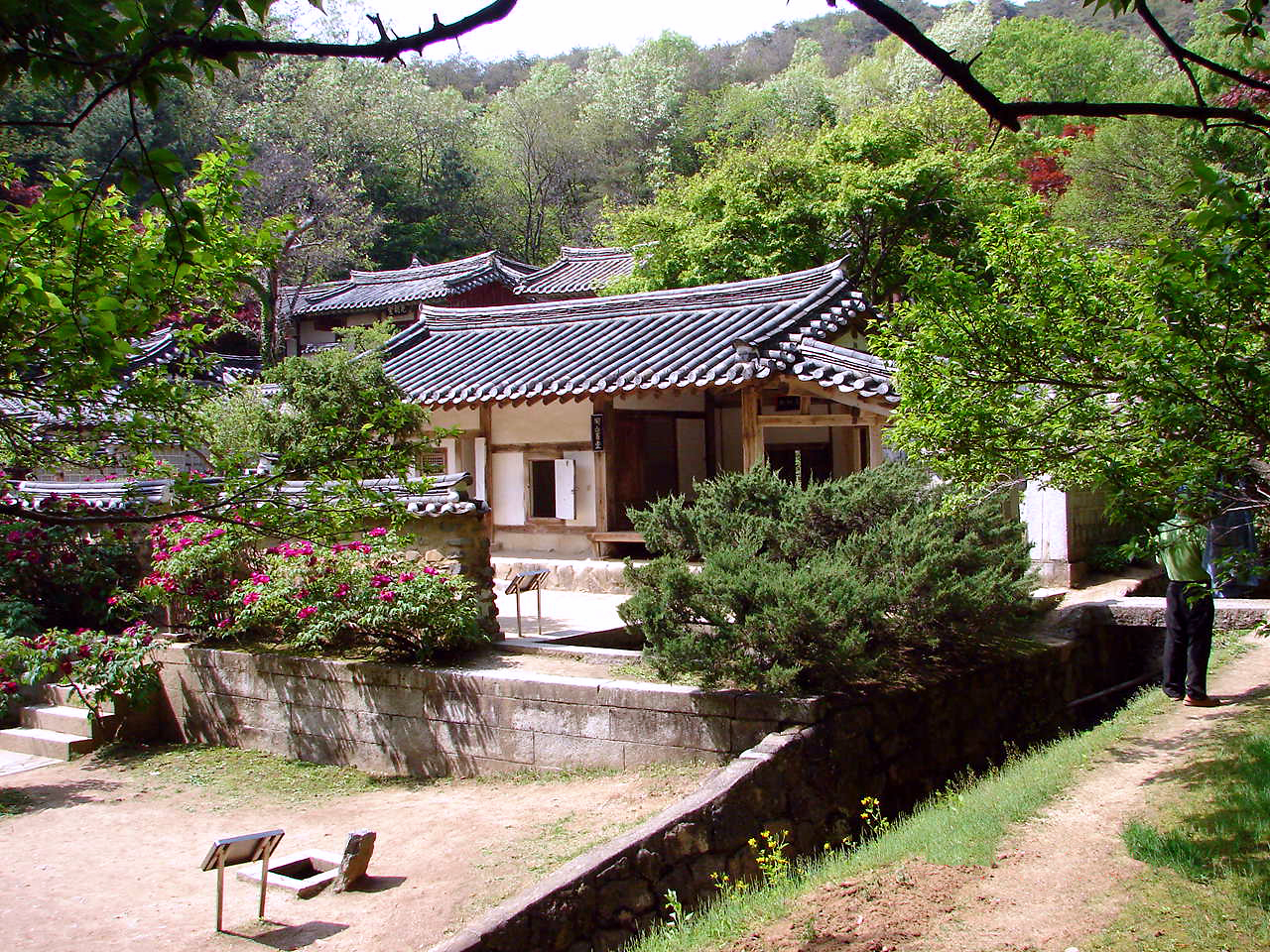 Dosan Seowon - Confucian Academy, was established in 1574 in Andong, South Korea, in memory of Confucian scholar Yi Hwang by some of his disciples and other Confucian authorities and serves two purposes: education and commemoration. Commemorative ceremonies have been and are still held twice a year and was featured on the reverse of the South Korean 1,000 won bill from 1975 until 2007.